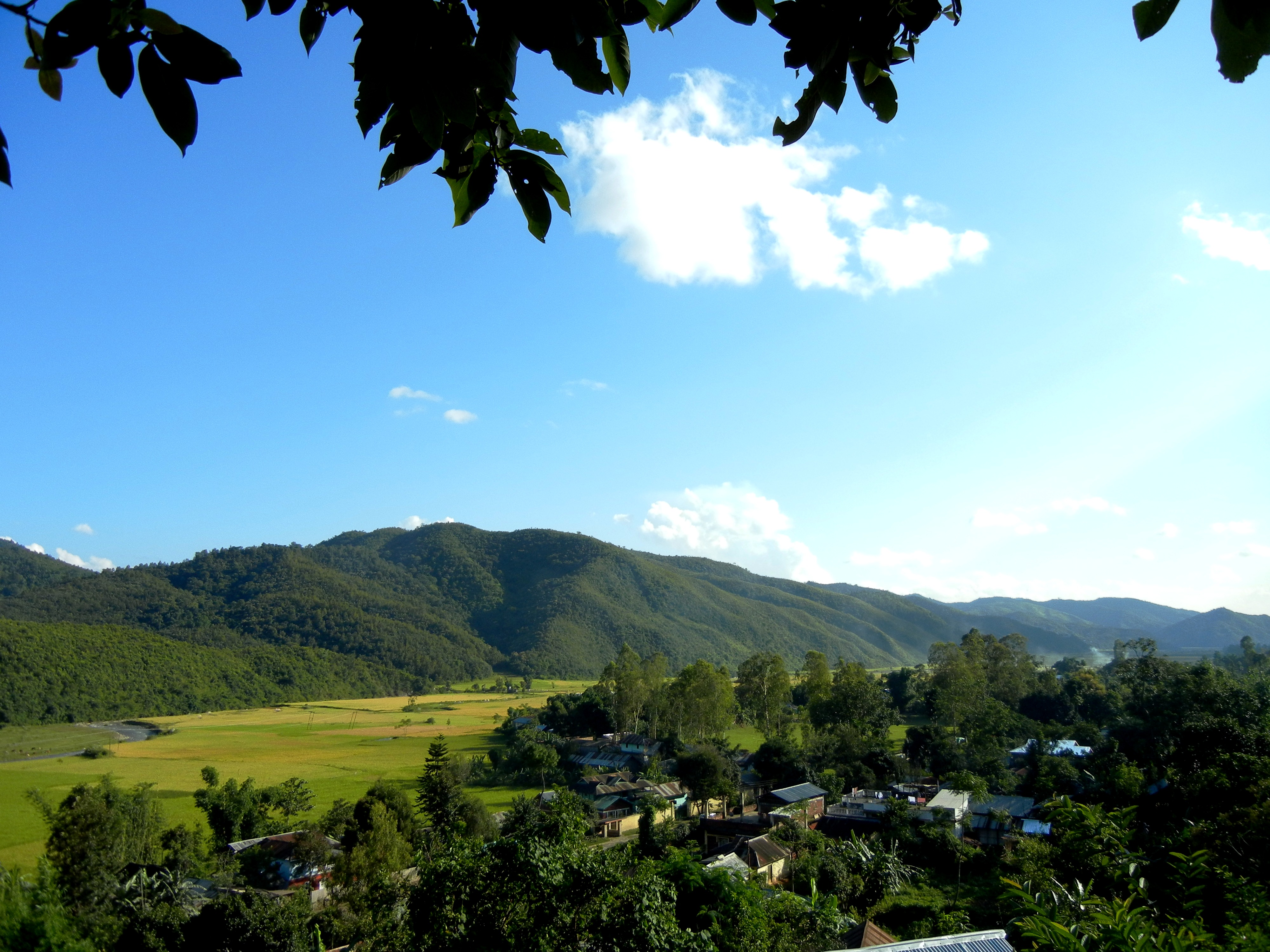 Tagaramphung as seen from the village's cemetery hill